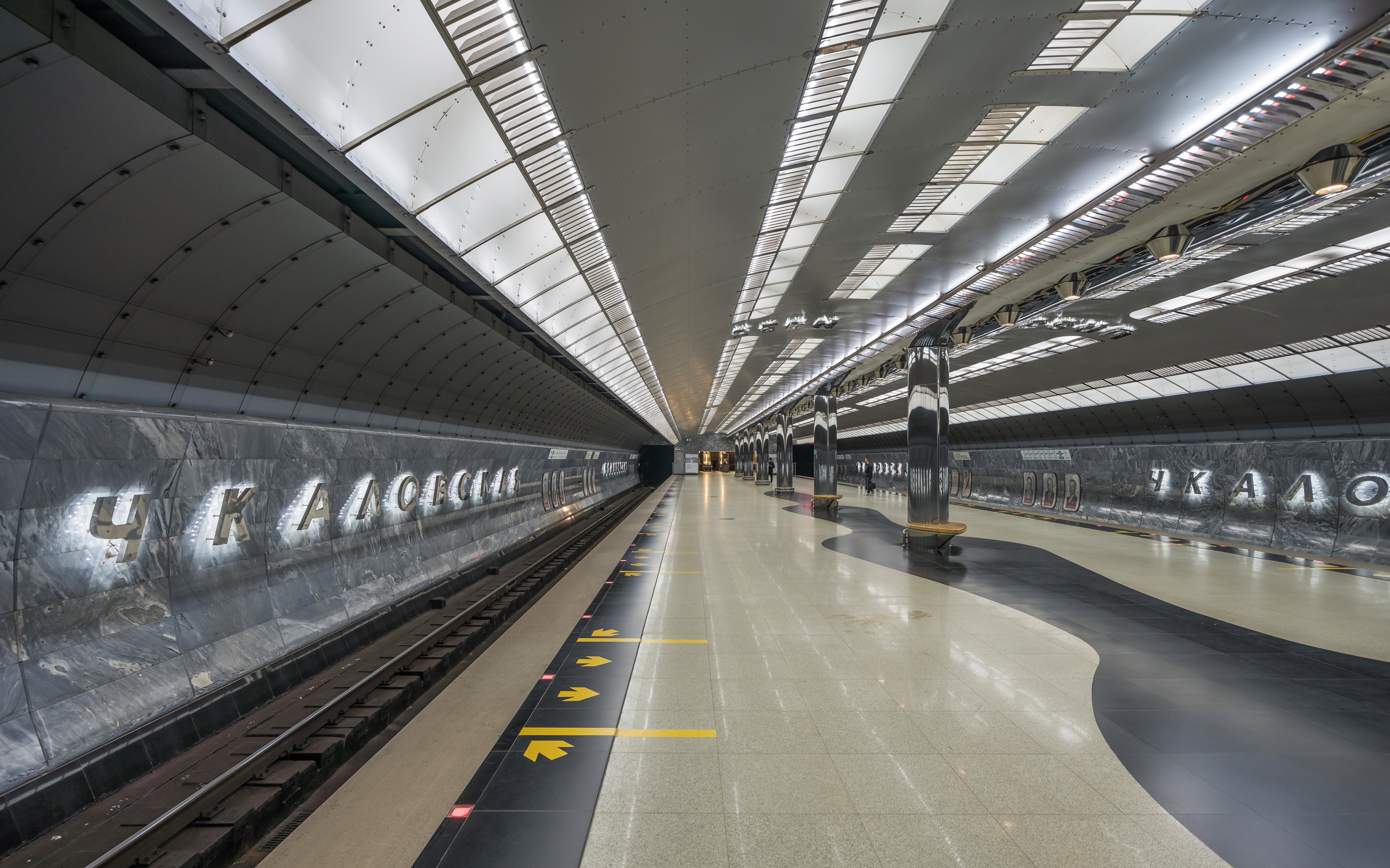 Chkalovskaya metro station in Ekaterinburg, Russia